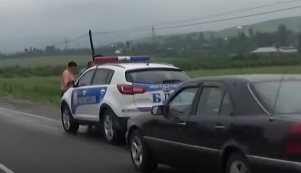 Traffic police car in Tajikistan. KIA Sportage.